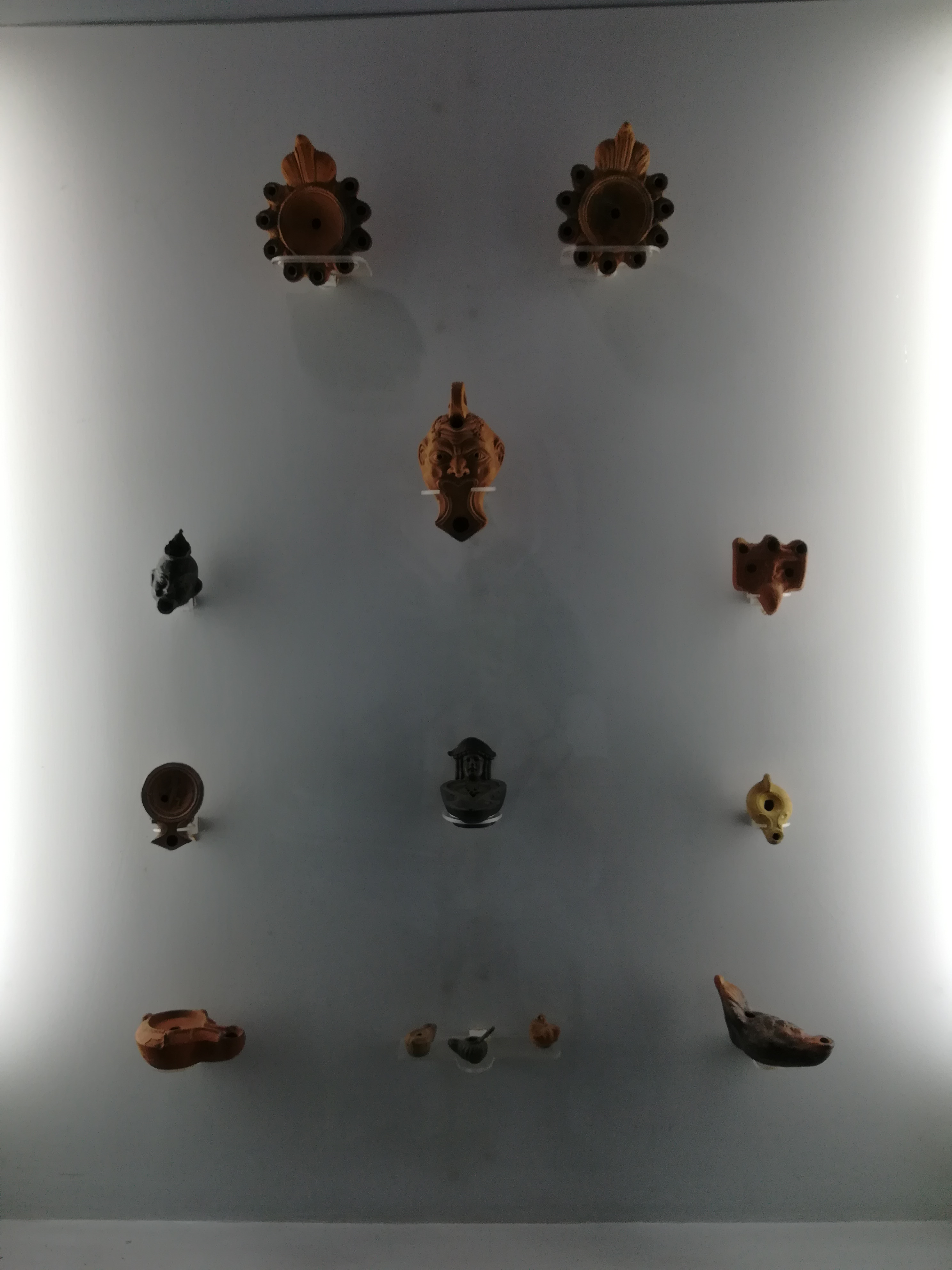 Oil lamps from the era of Ancient Rome, a permanent exhibition od the National museum in Pozarevac.